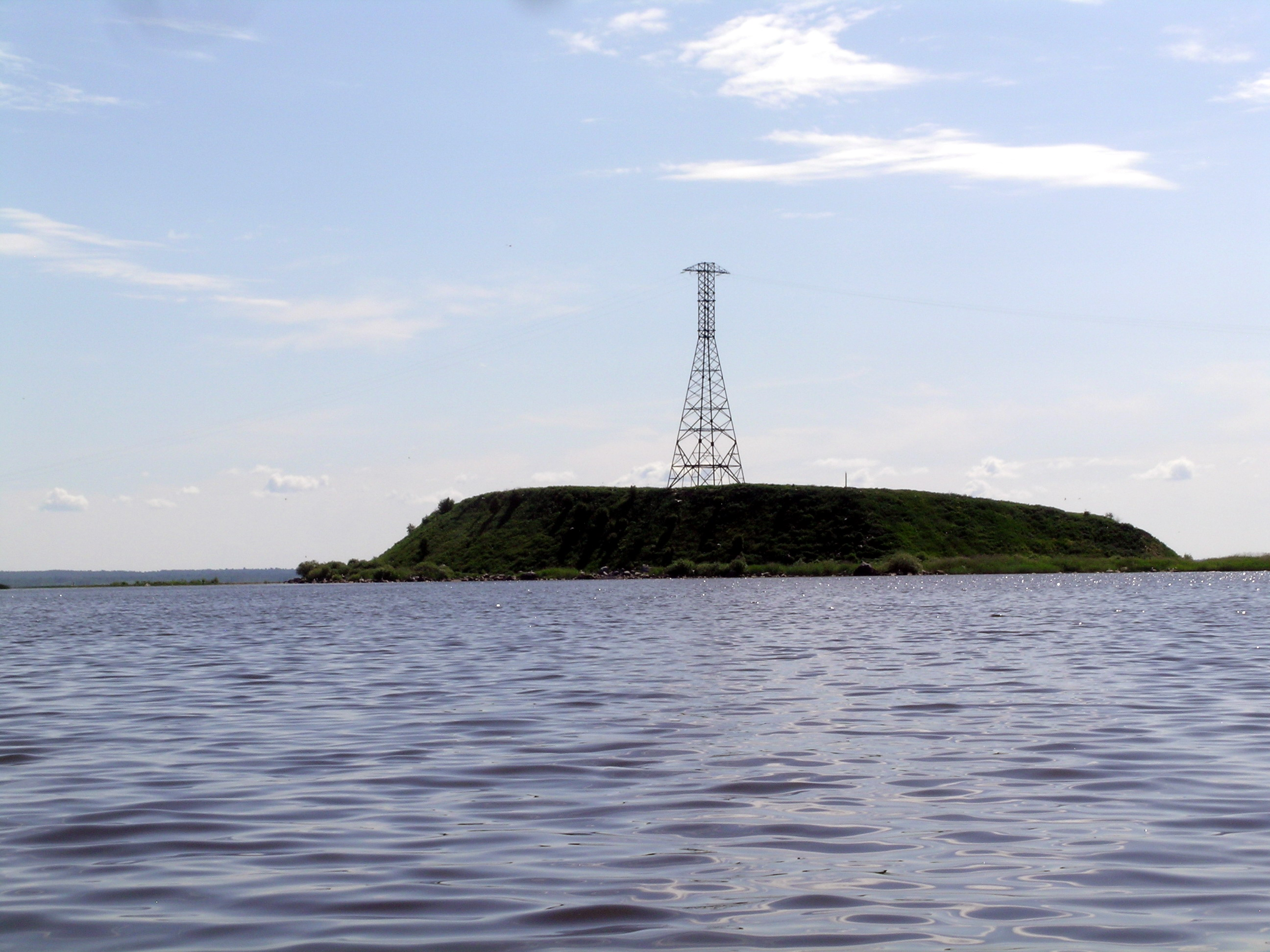 Tolobenec Island